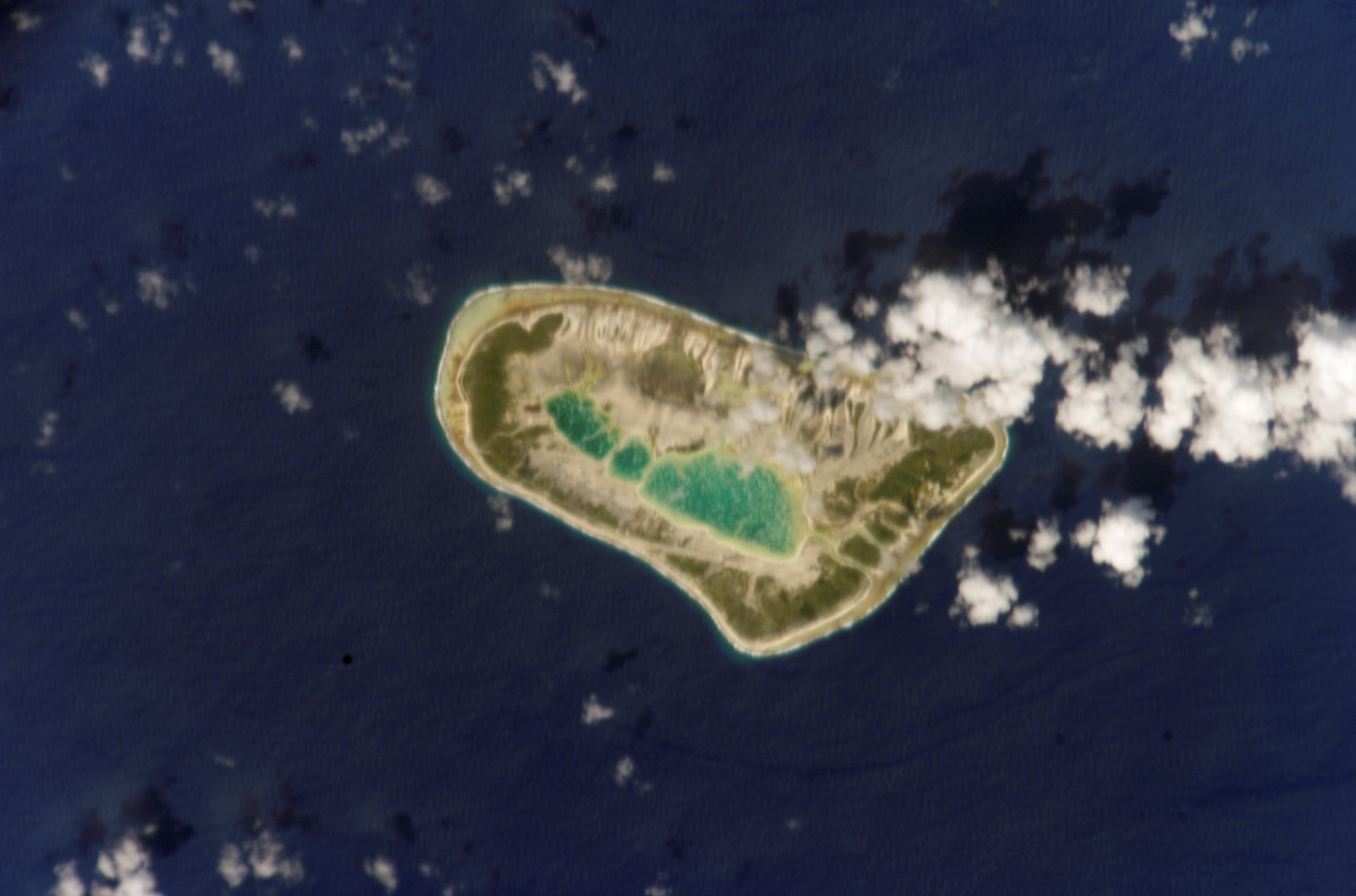 An image from the International Space Station of the Puka-Puka Atoll in the Tuamotu Archipelago, French Polynesia.